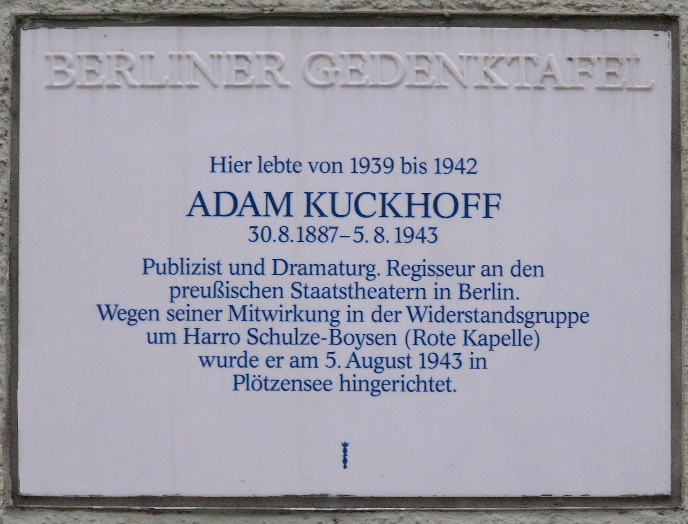 Berlin memorial plaque, Adam Kuckhoff, Wilhelmshöher Straße 18, Berlin-Friedenau, Germany Koordinate:52°28′20″N 13°19′22″E / 52.47222°N 13.32278°E